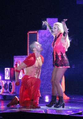 Spears